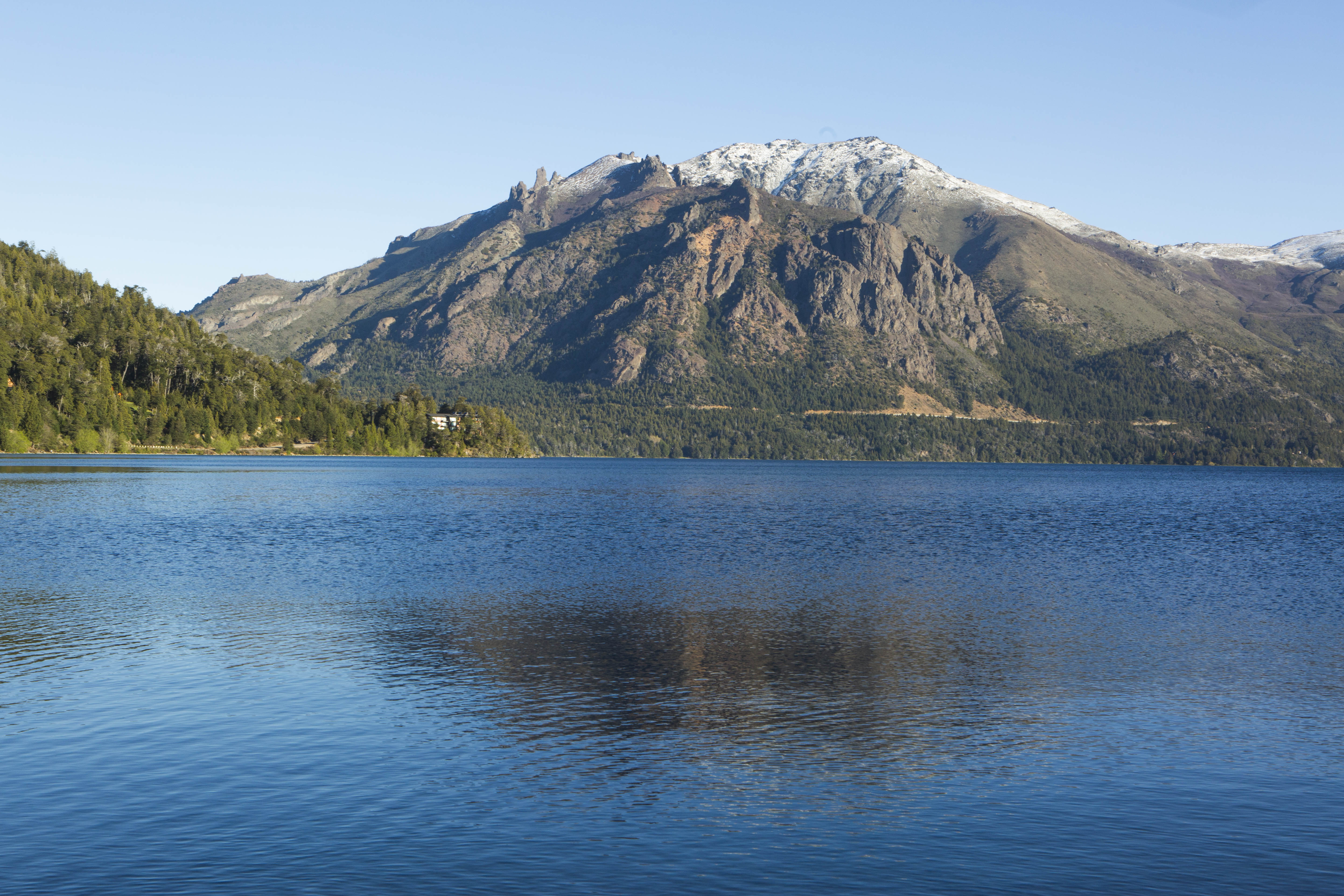 it is located on the coihues beach; in the next coordinate